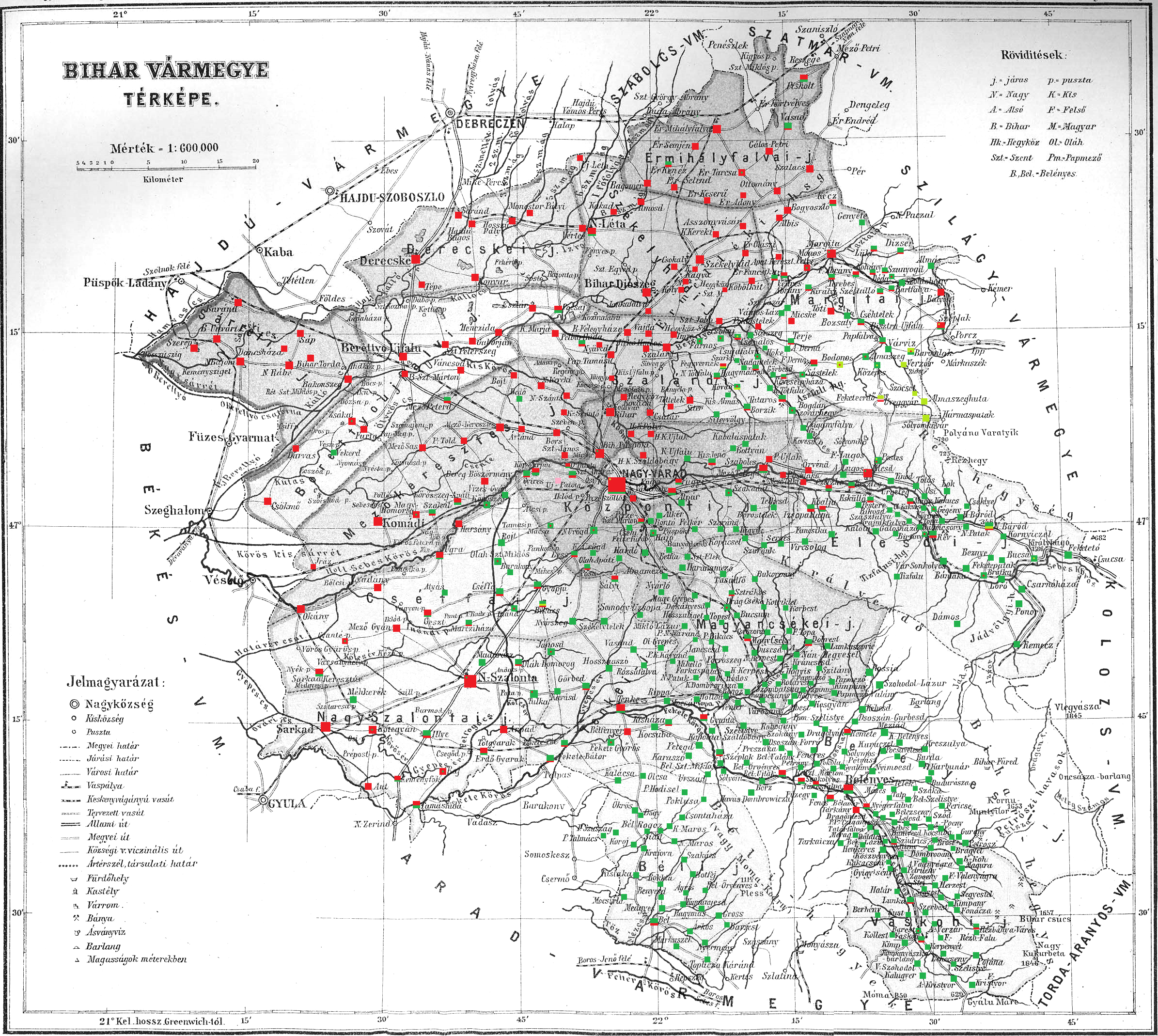 Ethnic map of the county (with data of the 1910 census). Key: red - Hungarians; dark green - Romanians; light green - Slovaks; pink - Germans. Coloured dots in plain rectangles imply the presence of smaller minority populations (generally more than 100 people or 10%). Multicoloured rectangles imply cities and villages with multi-ethnic populations with the order of the stripes following the ethnic composition of the settlement.